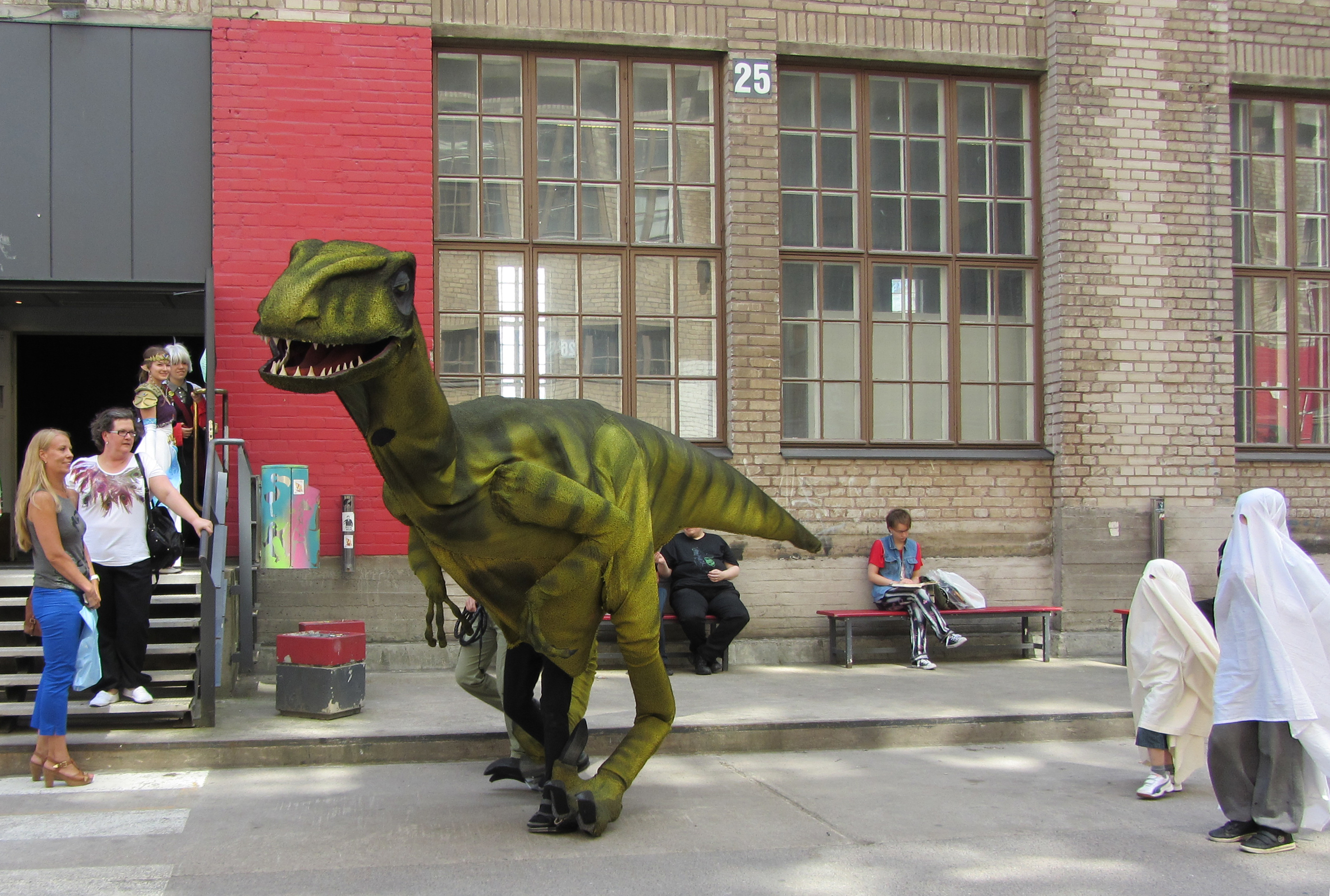 Cosplay at Finncon 2013